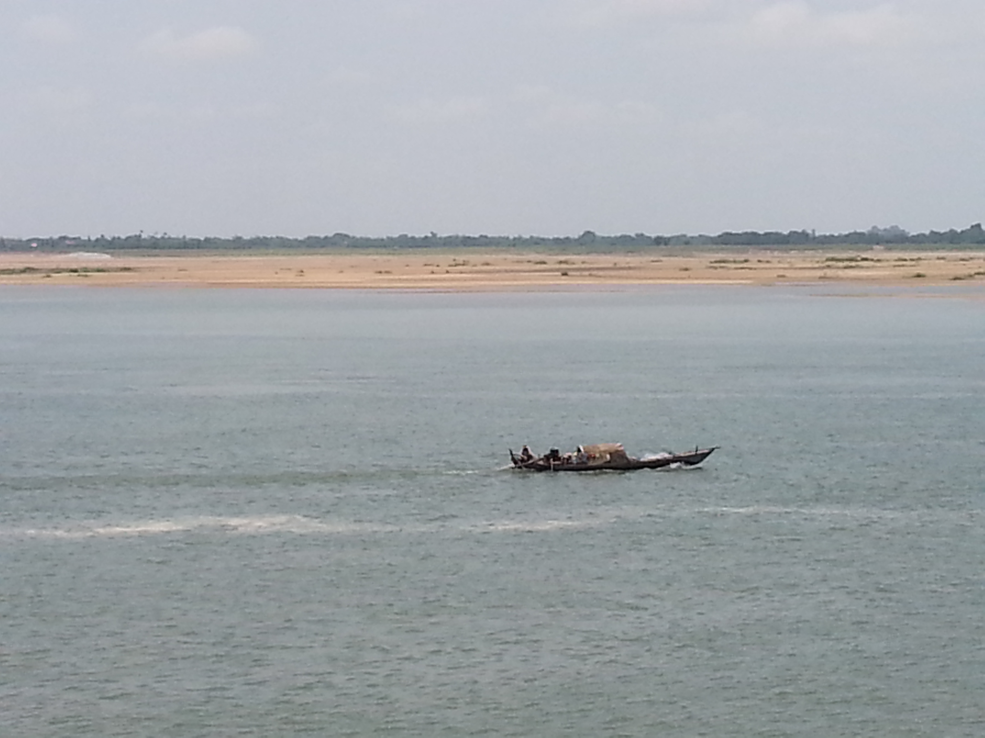 View of the Mekong River in Kandal Province.